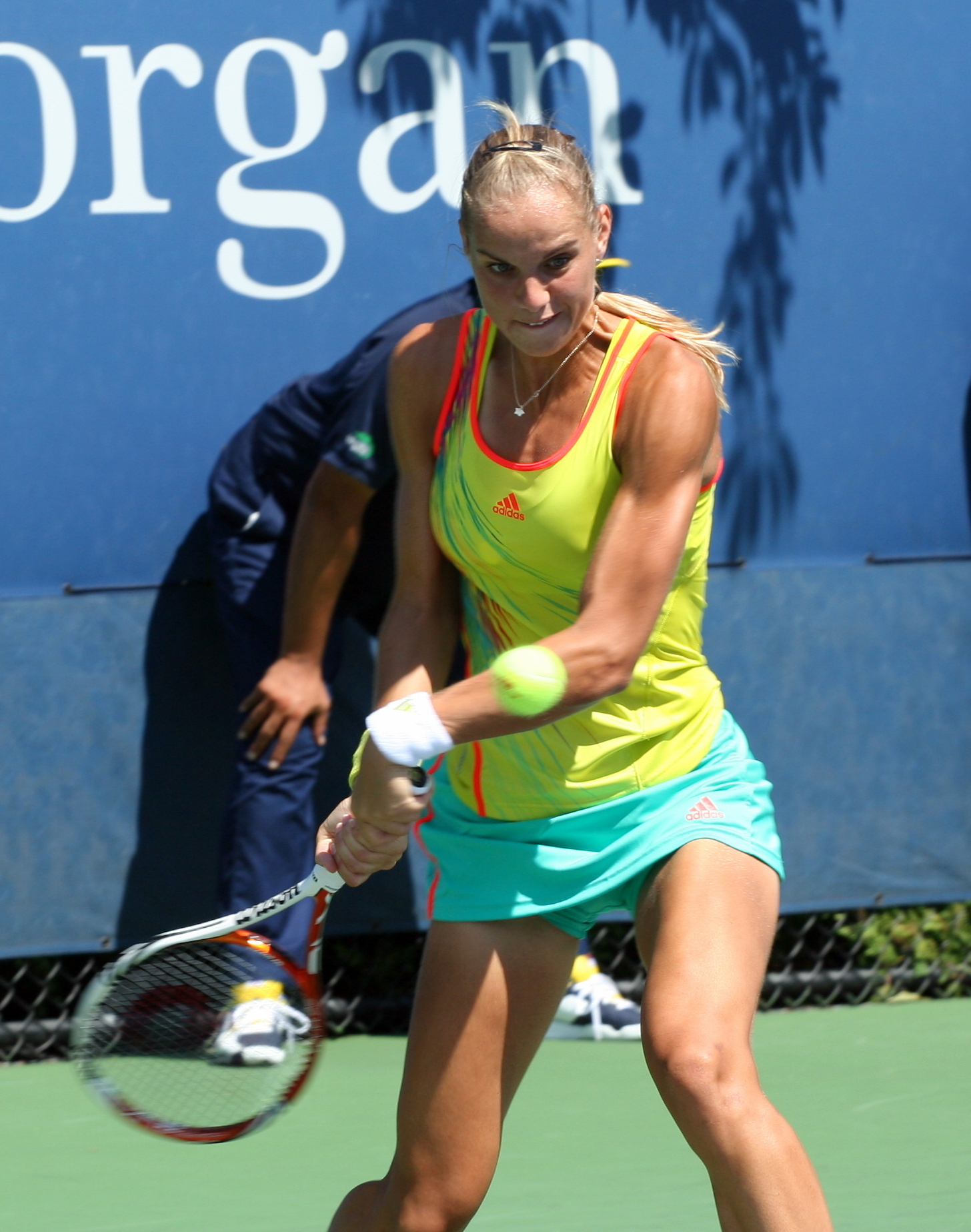 Arantxa Rus at the 2012 US Open